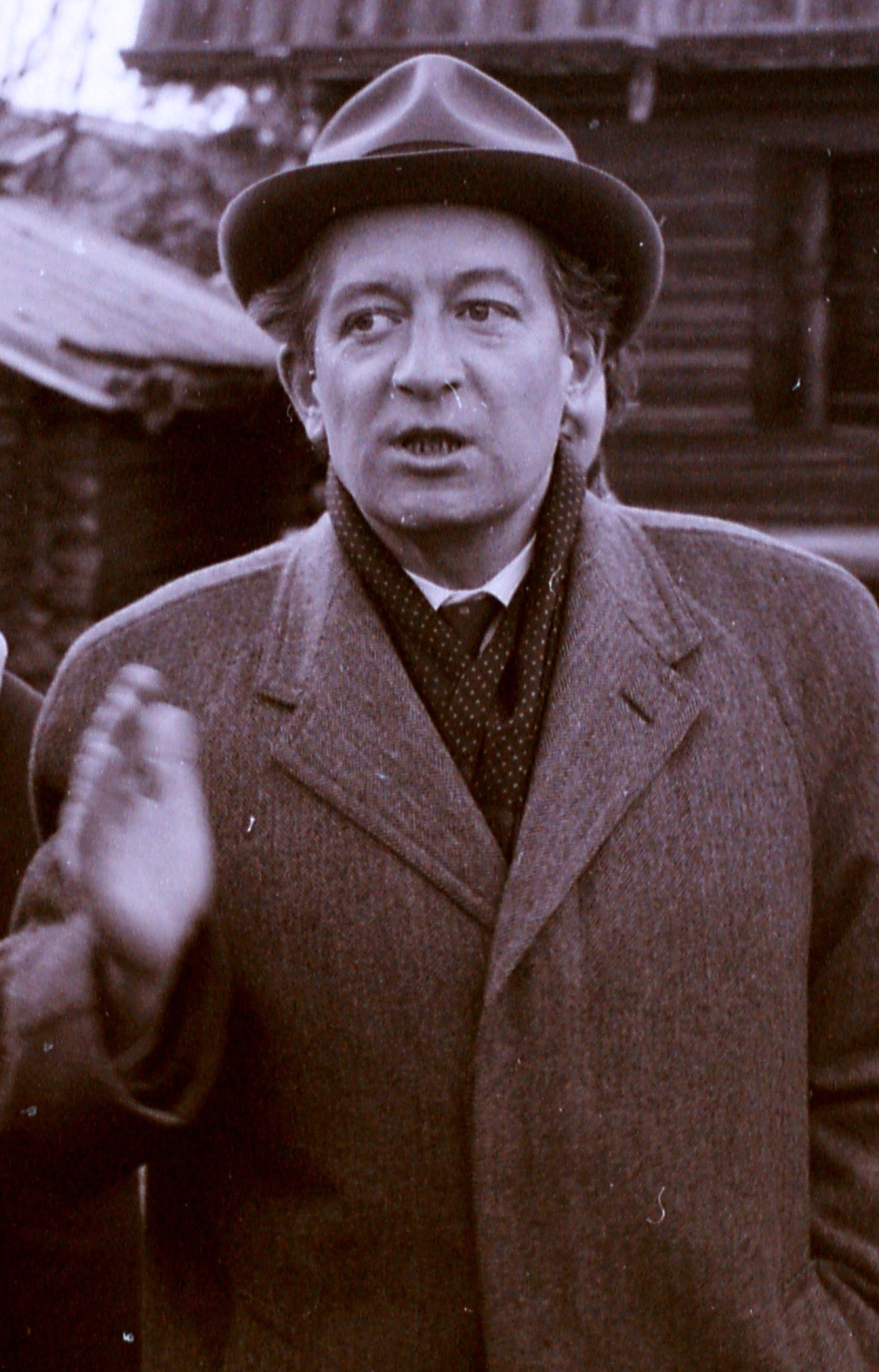 Erik Forssman (1915–2011), art historian